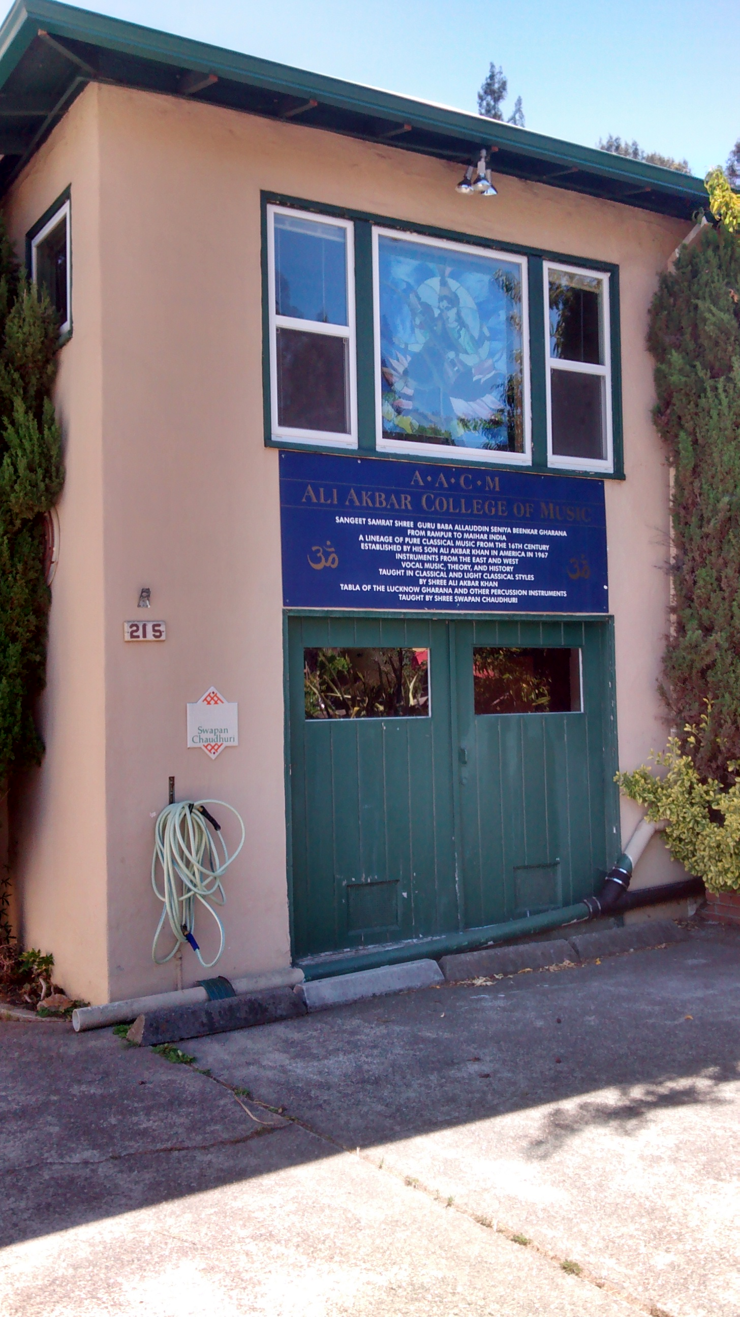 The San Rafael, California branch of the Ali Akbar College of Music.